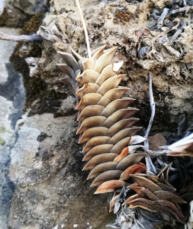 Haworthia viscosa at Gamkaberg Nature Reserve